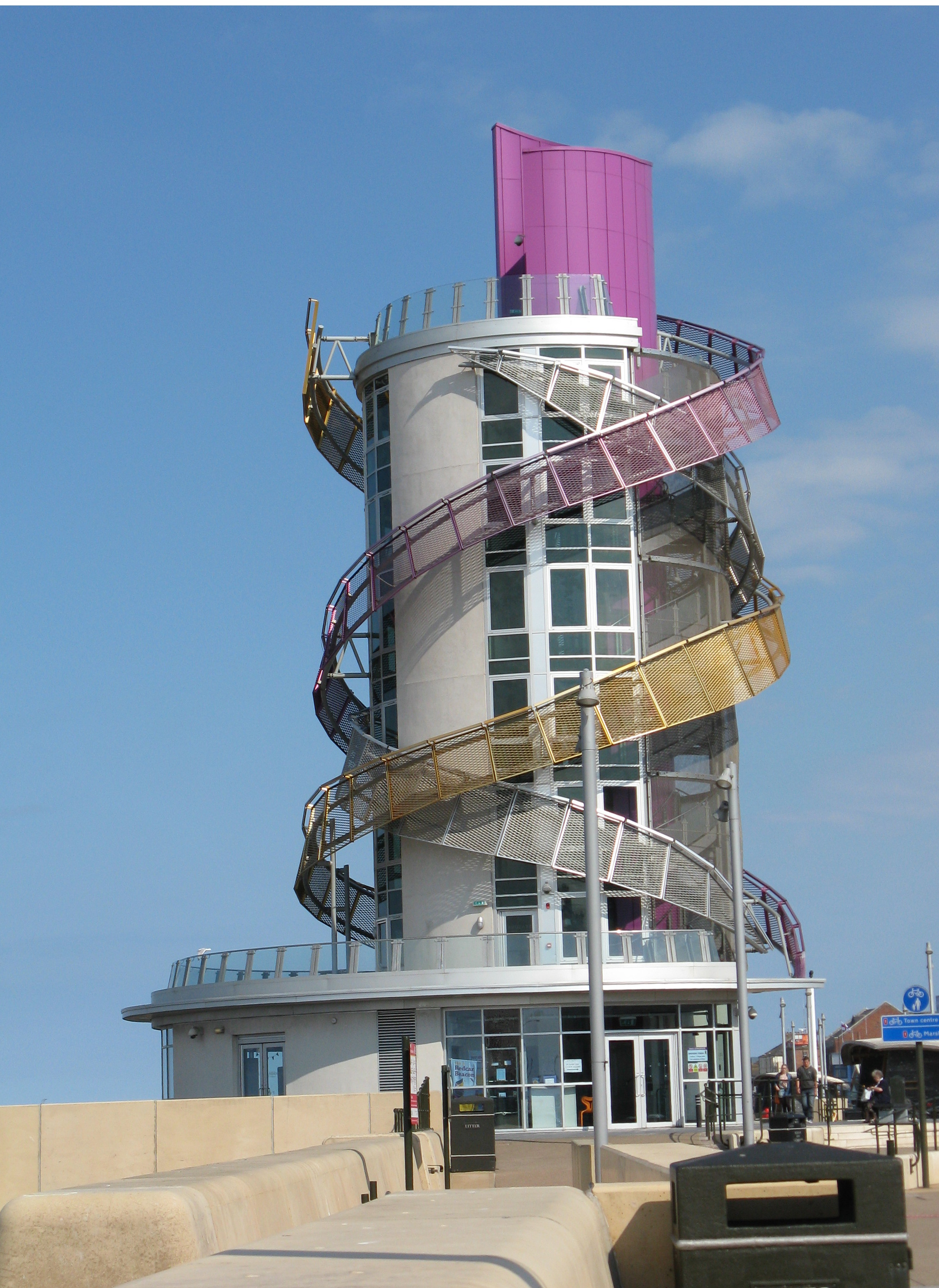 Redcar Beacon, Redcar, Redcar and Cleveland